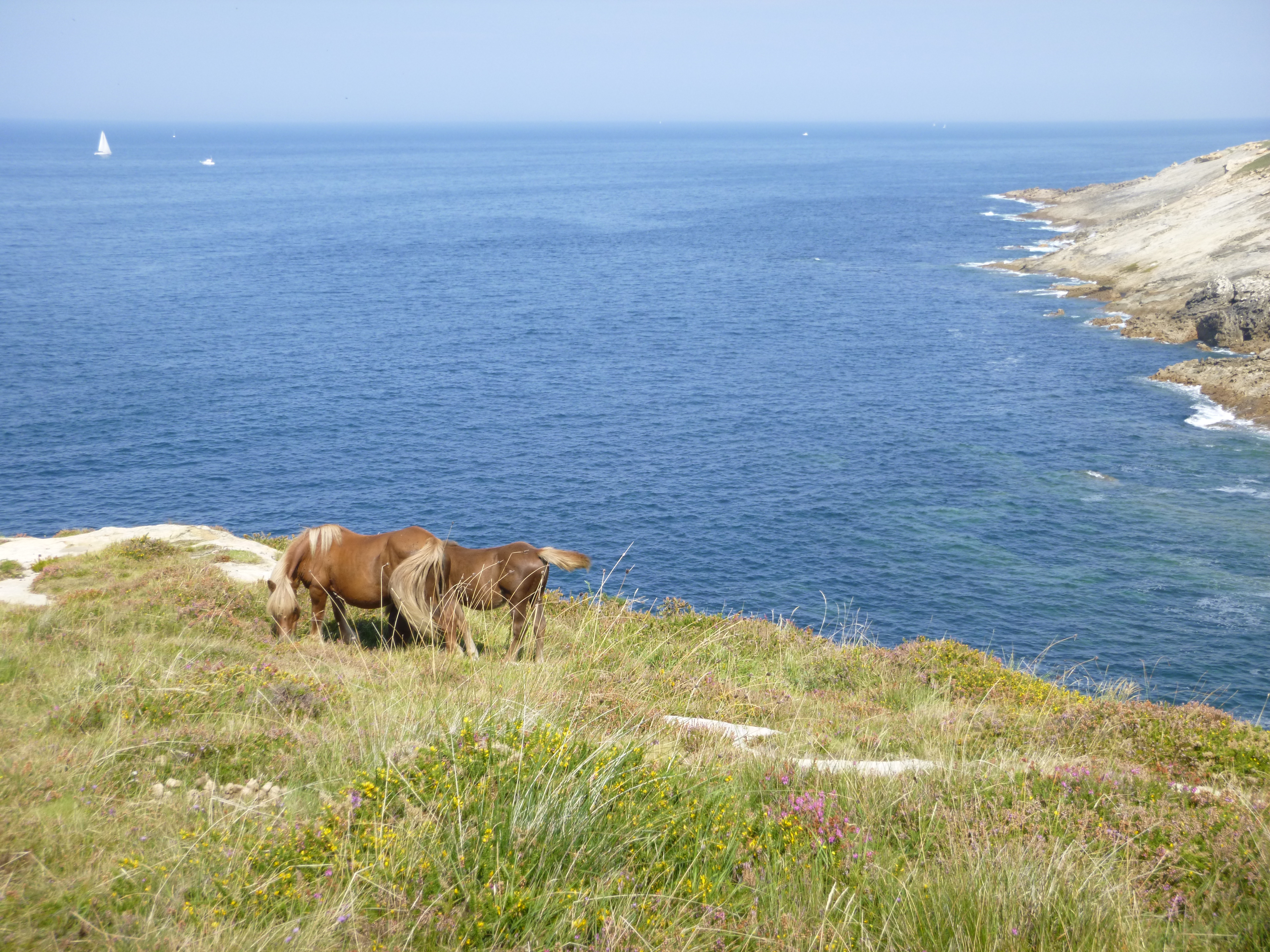 Horses in Jaizkibel